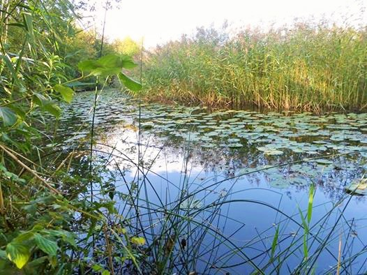 Crosagny pond